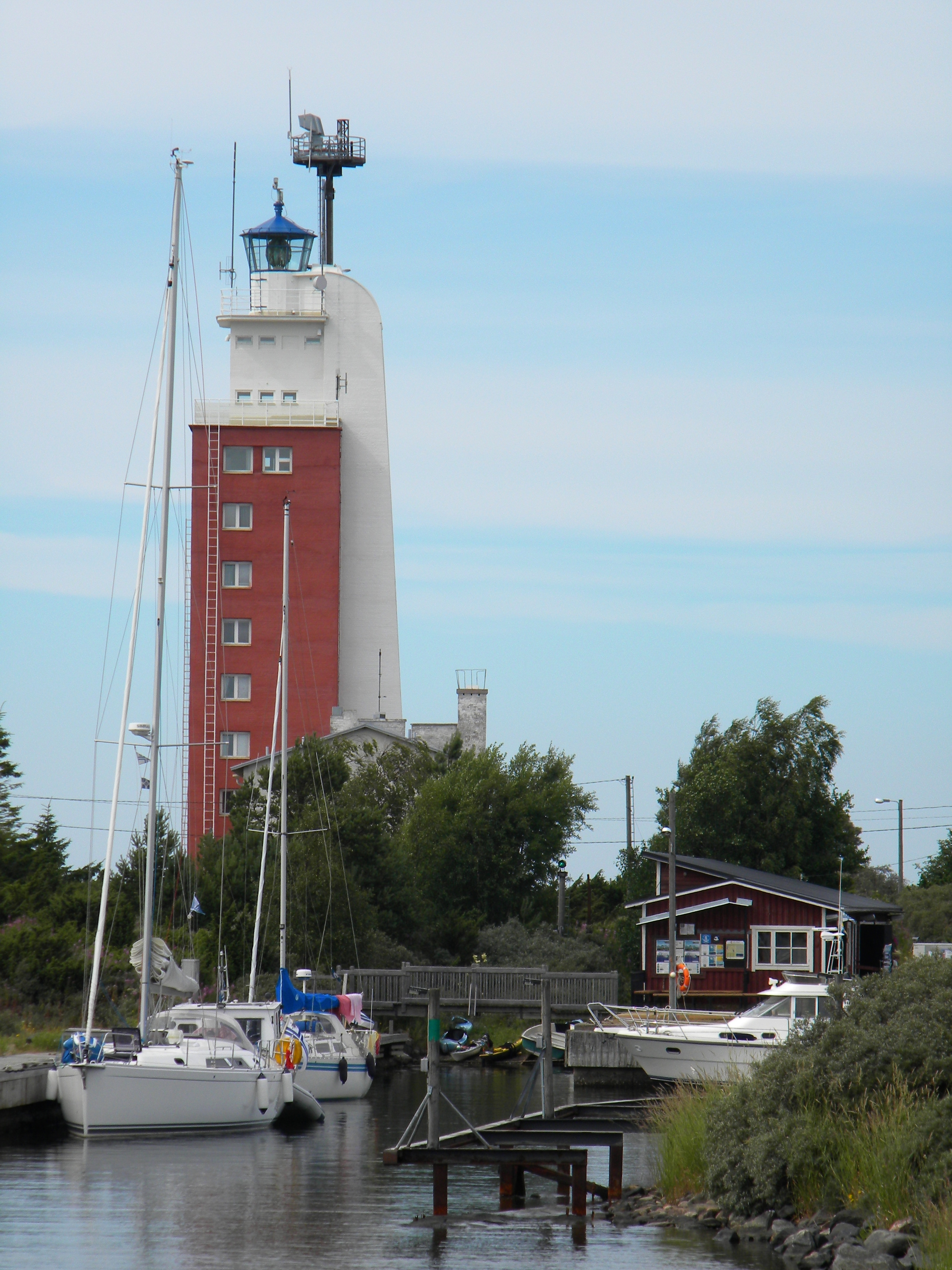 Kylmäpihlaja Lighthouse was built in 1953. It is located approx. 6 miles from the continent in front of Rauma, Finland.